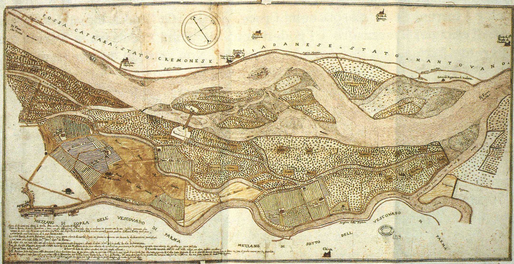 map of 1683 representing the confluence into Po river of Parma and Enza